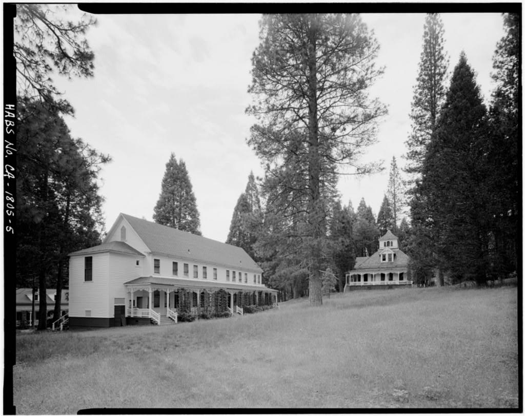 LONG BROWN (WASHBURN COTTAGE) AND LITTLE BROWN (MOORE COTTAGE) LOOKING NORTH HABS CAL,22-WAWO,1-5 - Significance: The Wawona Hotel complex was established on the homestead of Galen Clark, one of the Yosemite region's earliest settlers and pioneers. Clark was appointed the first protector of the Yosemite State Park in 1864. He and his successors built many of the first roads in the region and operated a stagecoach line in conjunction with the hotel. The Wawona has served as a major California resort hotel for over a century and has housed thousands of guests visiting the Yosemite Valley. The hotel complex was also the summer home of the nationally known American landscape artist, Thomas Hill, between 1886 and 1908.